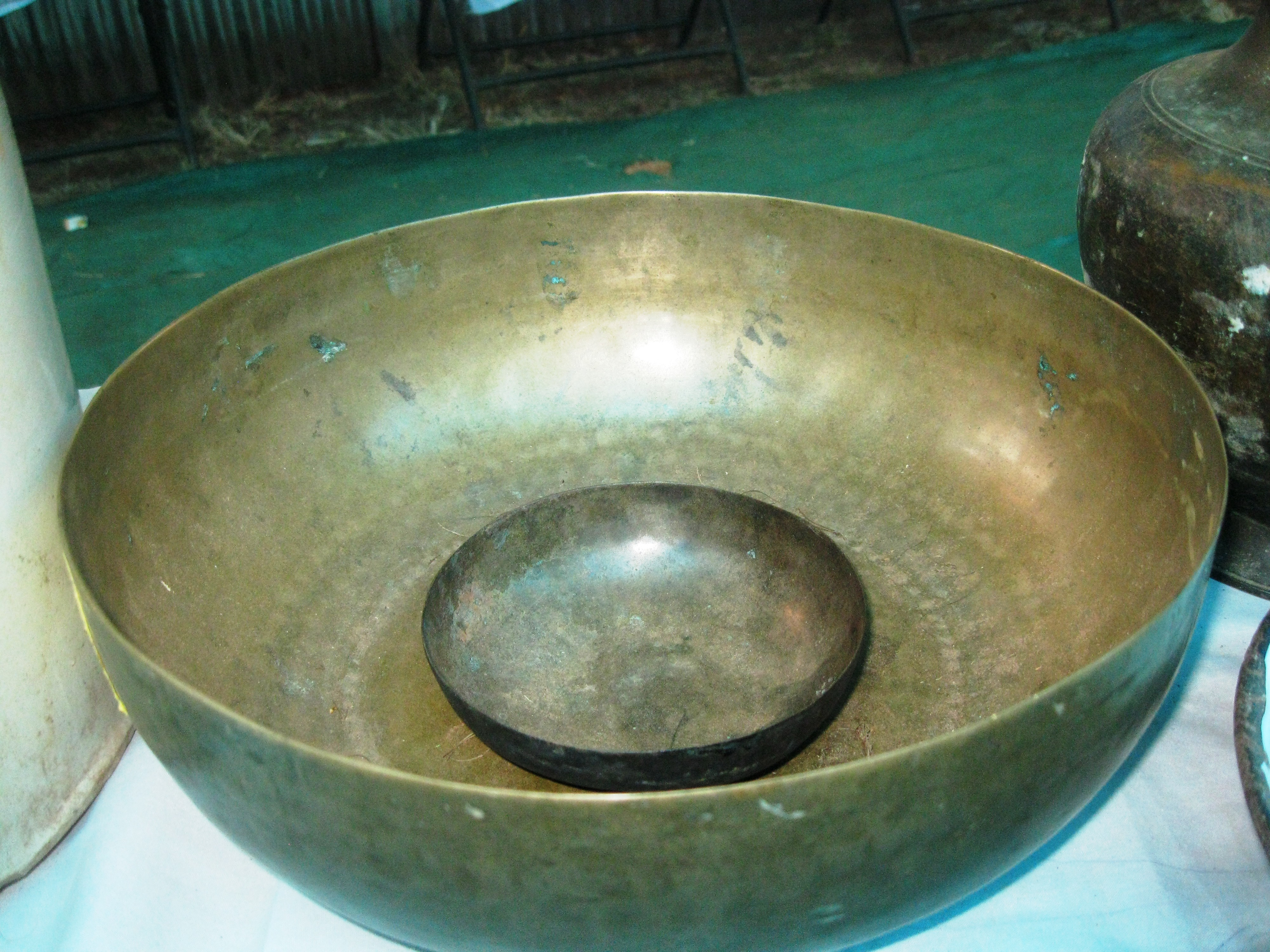 Bowl made up of metal in kerala